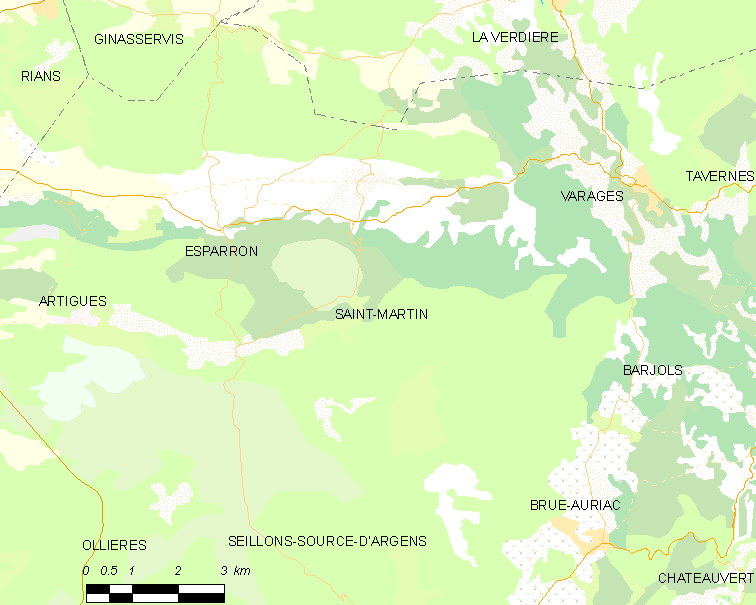 Map of French municipality Saint-Martin